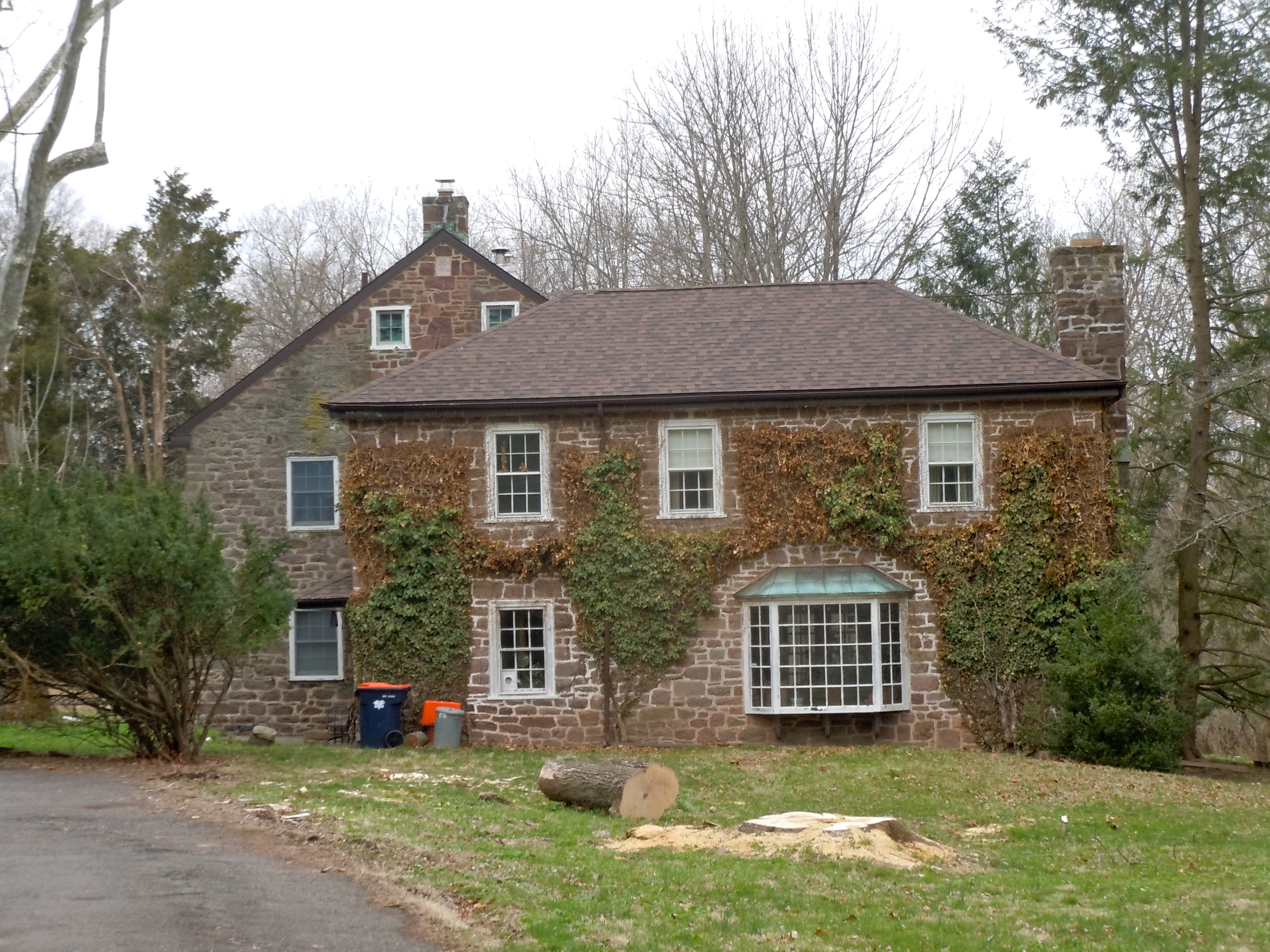 Kuster Mill on the NRHP since March 24, 1971. On Skippack Creek at Mill Road and Water Street Road, in Montgomery County, Pennsylvania south of Collegeville. A pedestrian bridge (now being repaired) leads into Evansburg State Park. Note that there is a Kuyster Mill in the park (on the other side of the creek to the west), but that this IS the Kuster Mill - it might also be called the Custer Mill because the family changed the spelling of the name. built in 1702, sold to Hermanus Custer in 1706, expanded by John Custer 1767. A later fulling mill was built, then burned down in 1936. It has been reconstructed and may be th part with the hipped roof shown in front here.